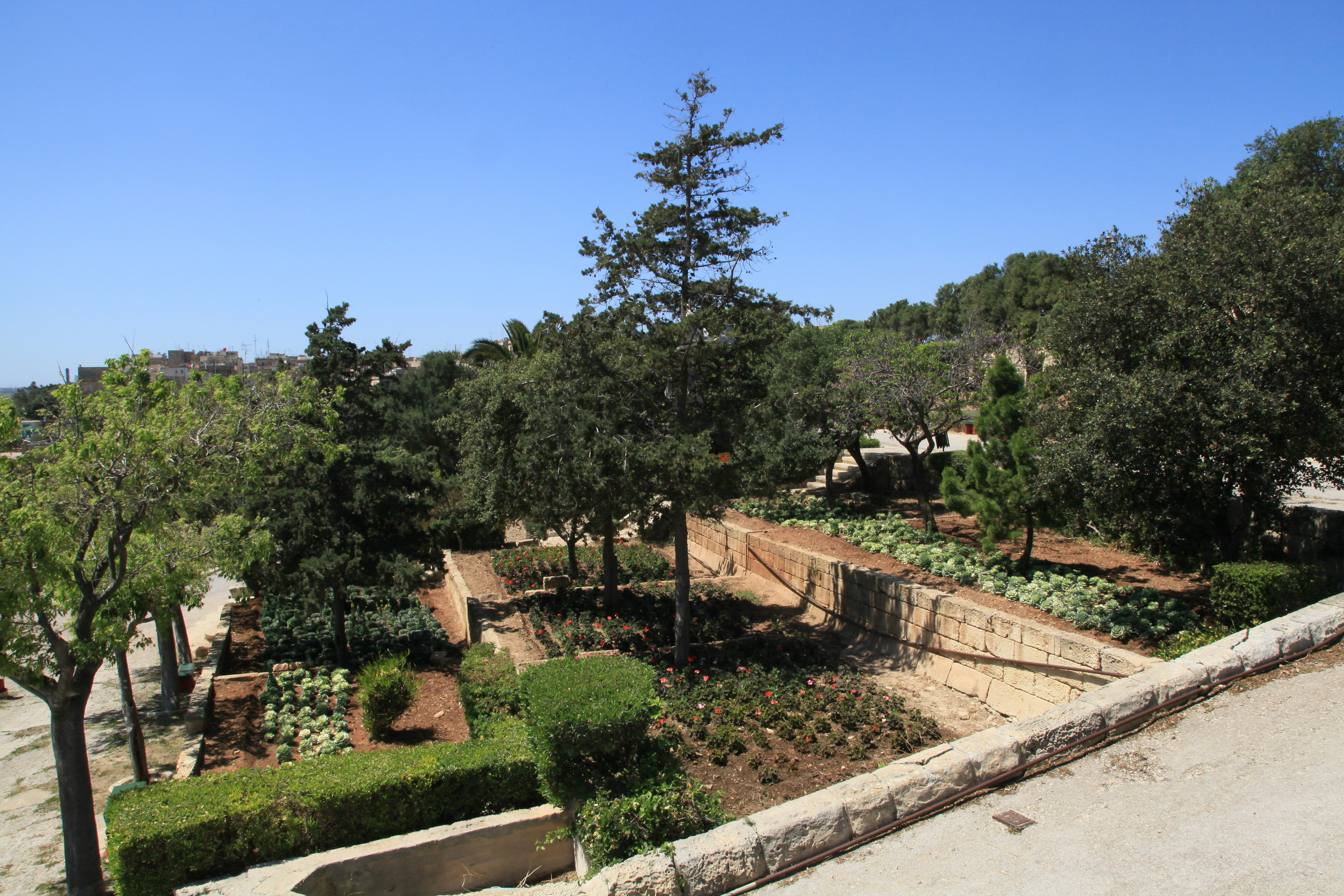 Herbert Ganado Gardens at Triq Girolamo Cassar in Valletta, Malta